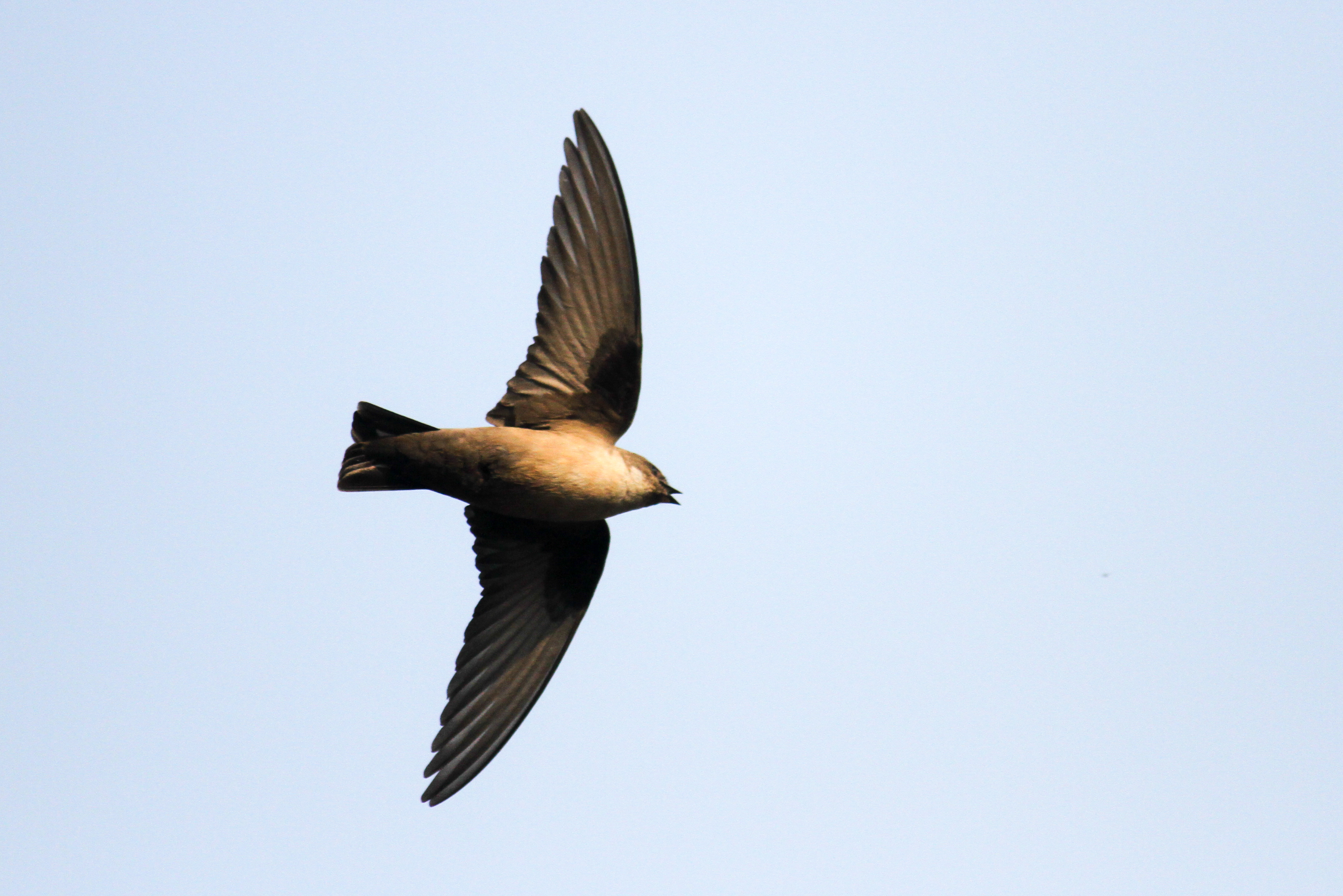 Birds of India